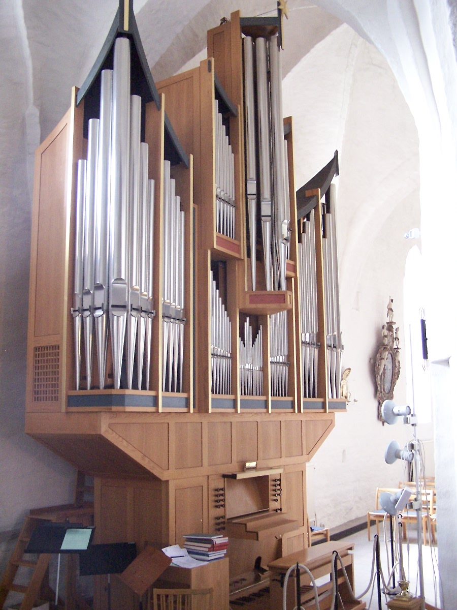 The choir organ in Sankt Laurentii church in Söderköping, Sweden